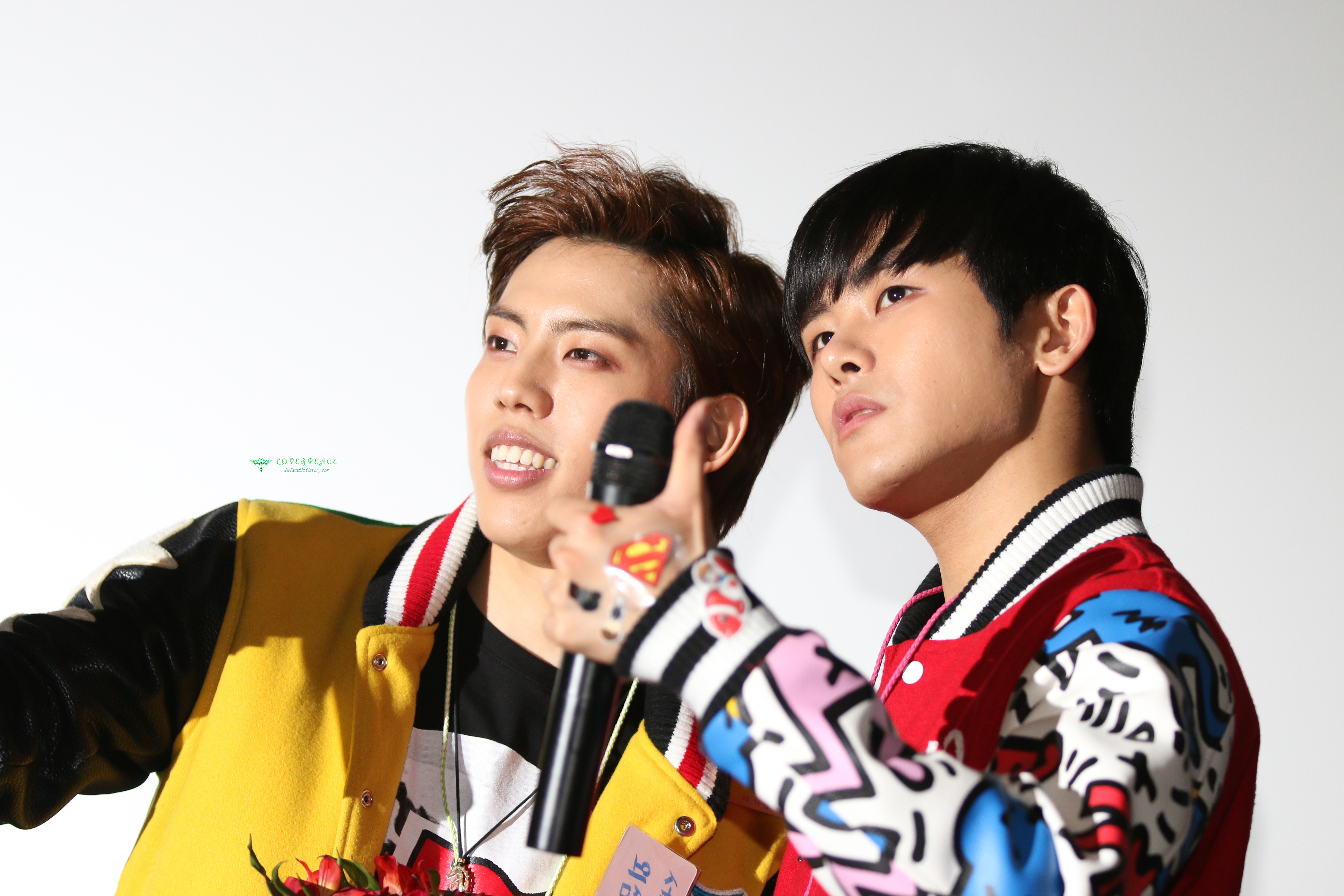 Infinite H at a fansign event in Yongsan on February 7, 2015.